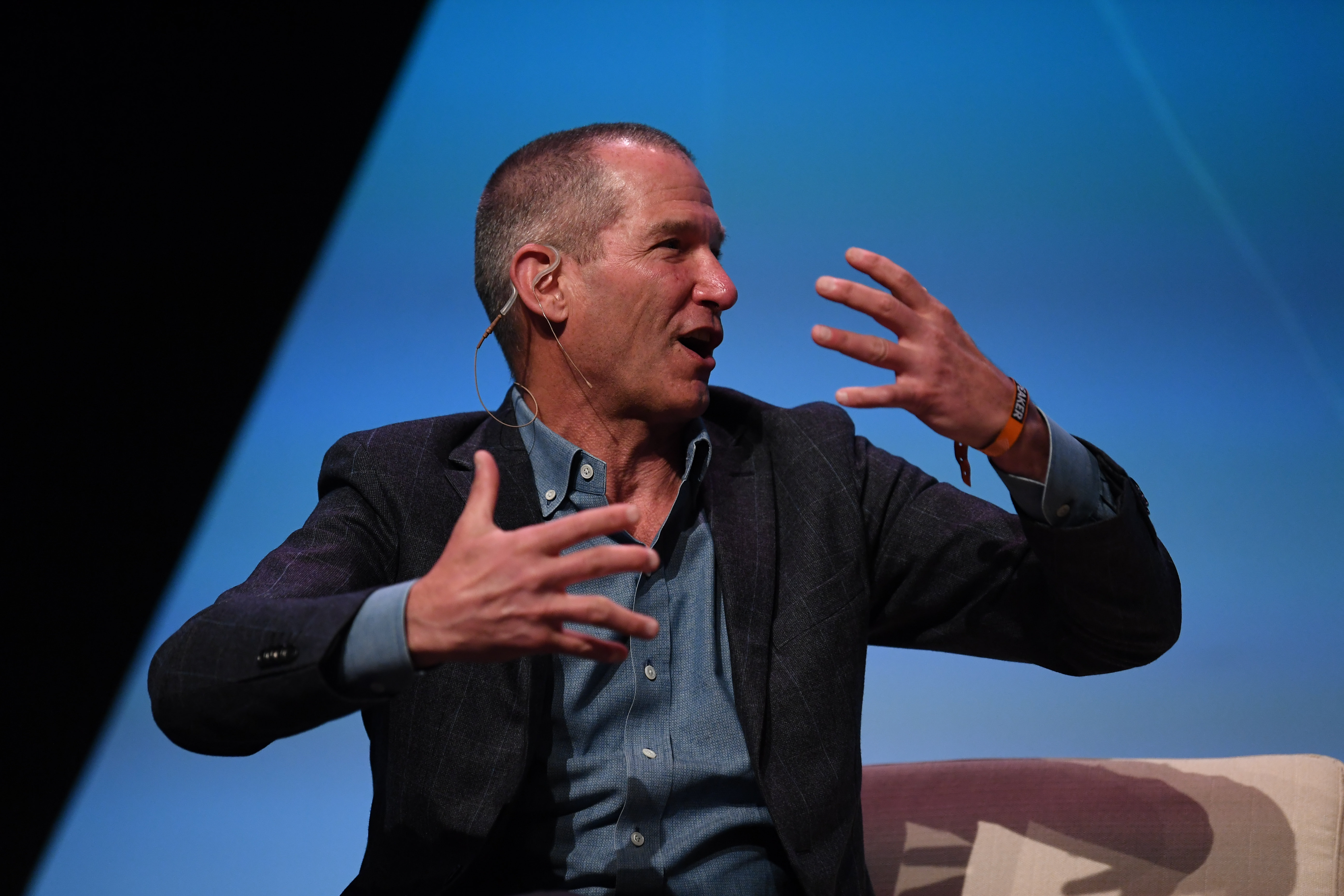 1 May 2018; Jeff Jordan, General Partner, Andreessen Horowitz, on the Center Stage during day one of Collision 2018 at Ernest N. Morial Convention Center in New Orleans. Photo by Stephen McCarthy/Collision via Sportsfile